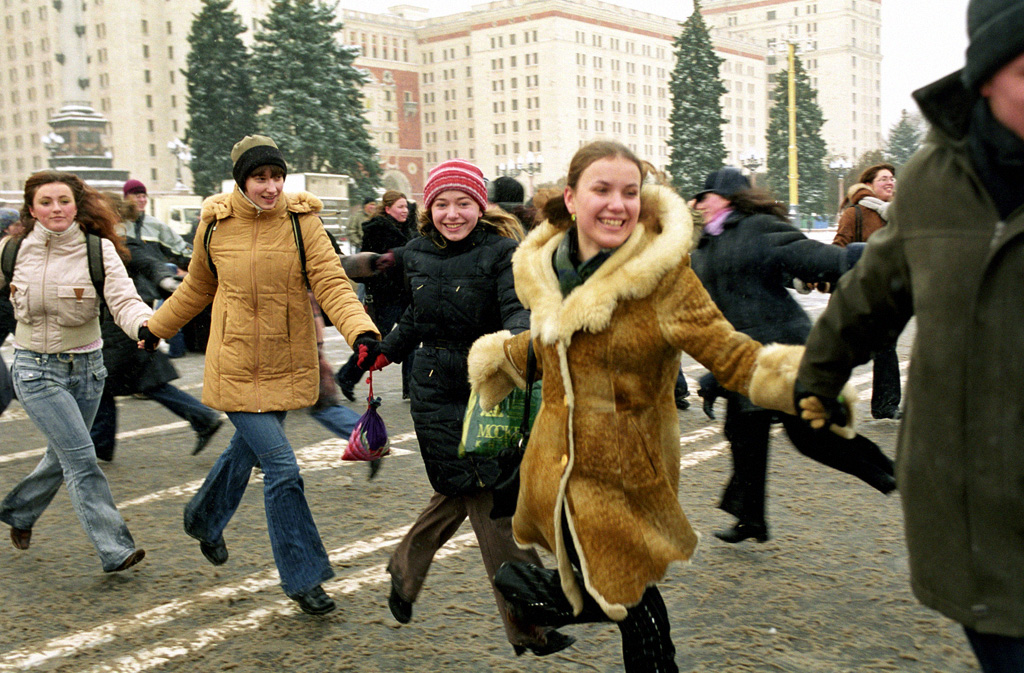 “Students' holiday, St. Tatyana's Day and the 250th anniversary of Moscow State University named after M. Lomonosov.”. Students celebrating St. Tatyana's Day and the 250th anniversary of Moscow State University named after M. Lomonosov.